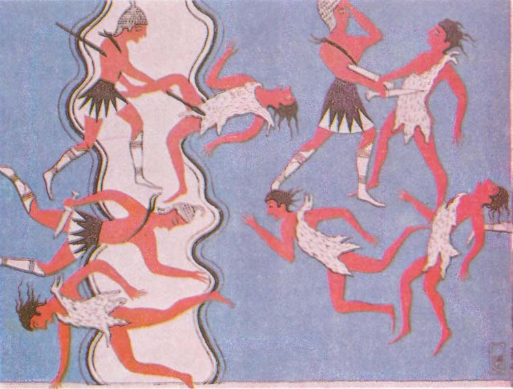 Fresco of hunter. Palace of Nestor. Pylos